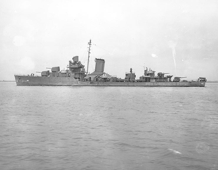 USS Blue (DD-387) off of Mare Island Navy Yard on en:11 April en:1942. Removed caption read: Photo # NH 97798 USS Blue off the Mare Island Navy Yard, Ca., 11 April 1942